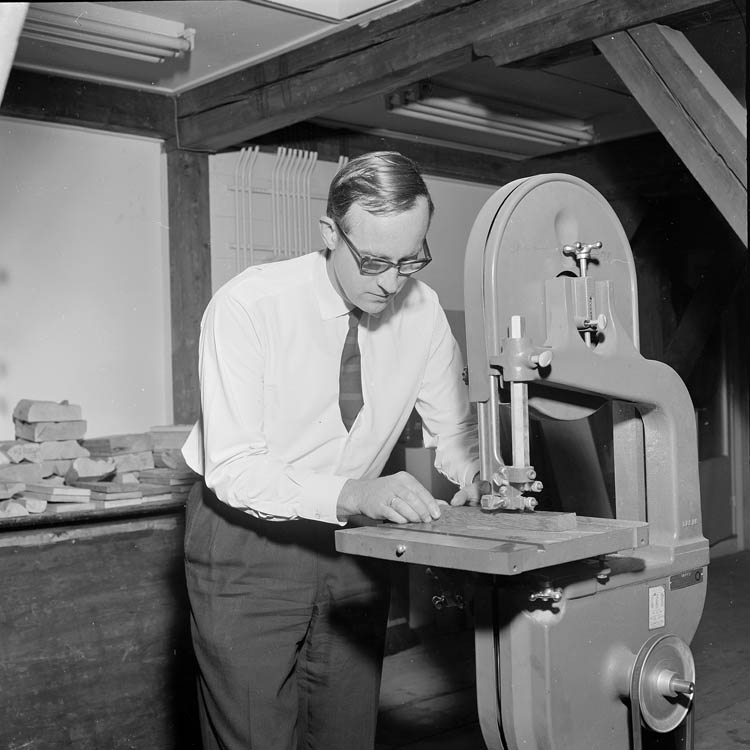 Prof. ir. G.J. van der Grinten